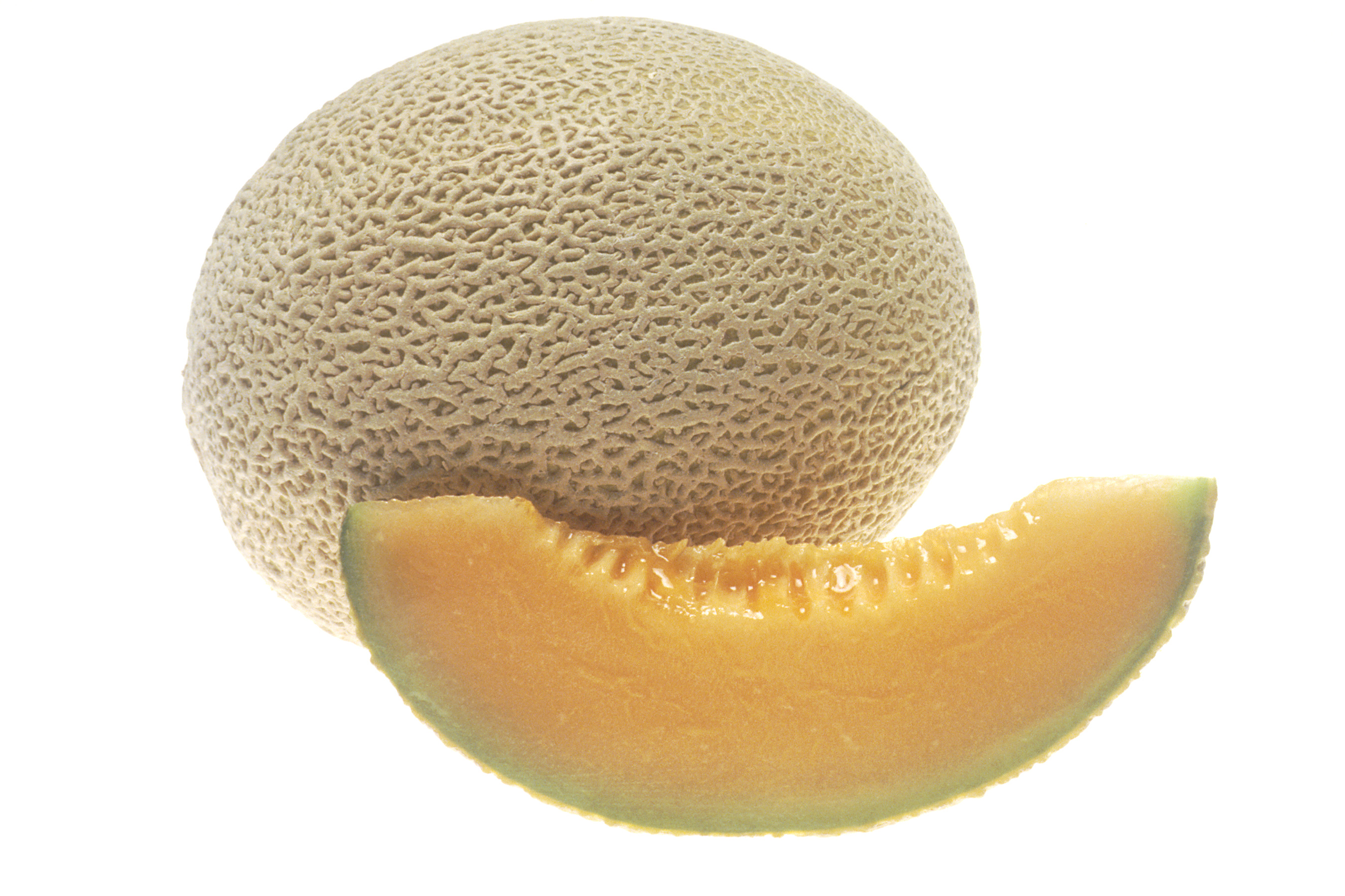 Title Cantaloupe Description A whole melon with a slice of cantaloupe. Topics/Categories Food and Drink Type Color, Photo Source National Cancer Institute